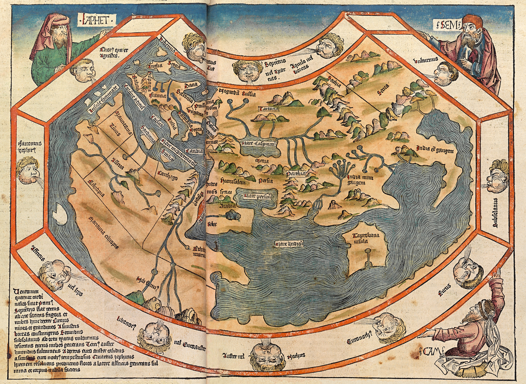 This is a part of a scan of an historical document: Title: Schedelsche Weltchronik or Nuremberg Chronicle